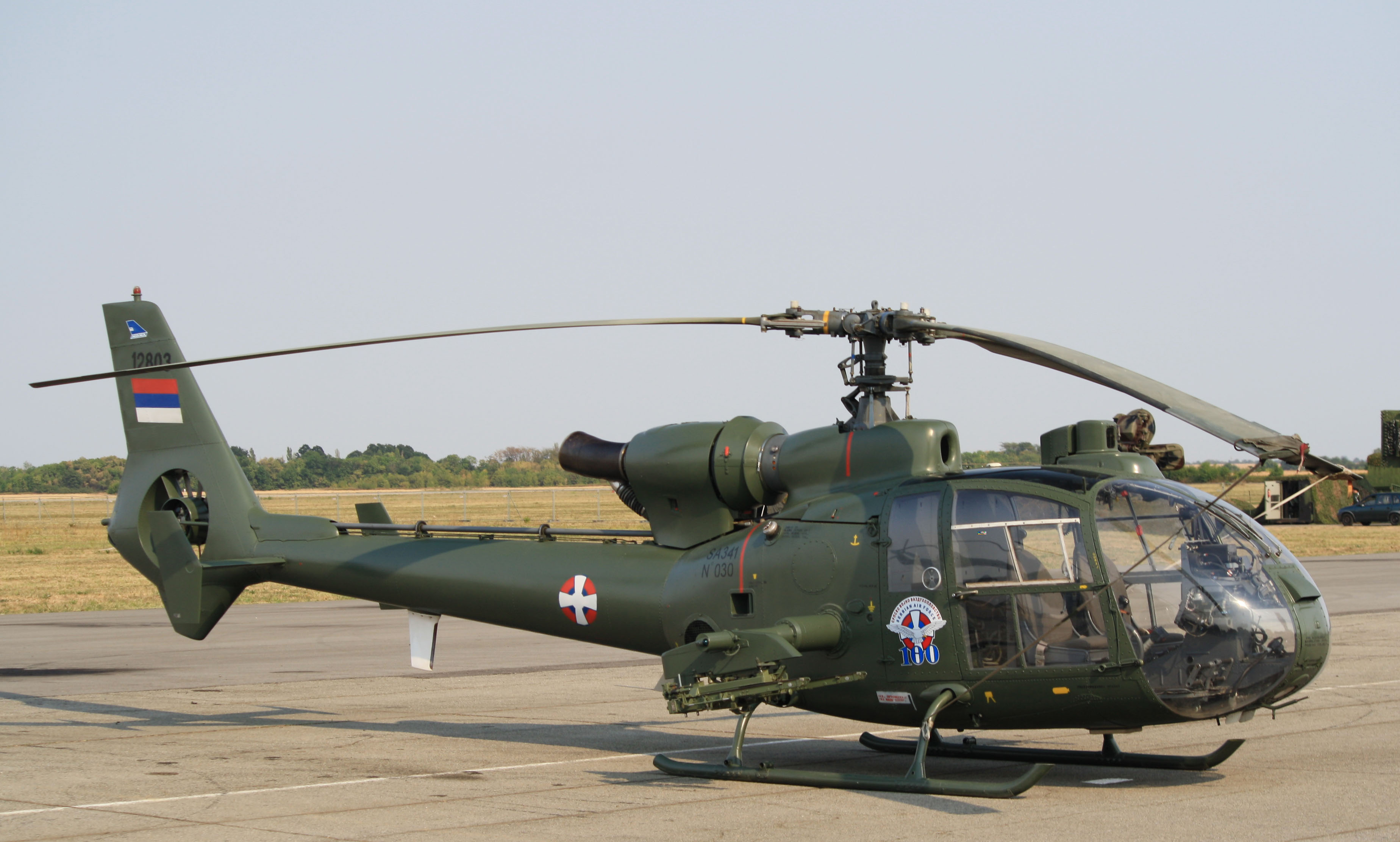 Soko SA341 Gazelle Gama No.12803 anti-tank helicopter of 890. Mixed Helicopter Squadron, 204th Air Brigade of Serbian Air Force, on display at Batajnica Air Show 2012 held to celebrate 100 years of Serbian Air Force.